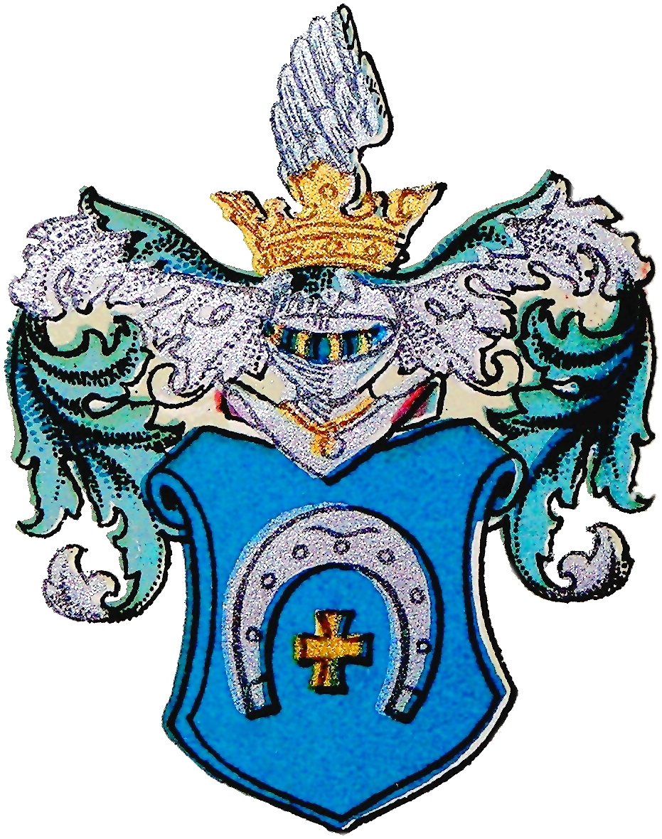 Crest Blunt Horseshoe from the nineteenth century ancestral heritage